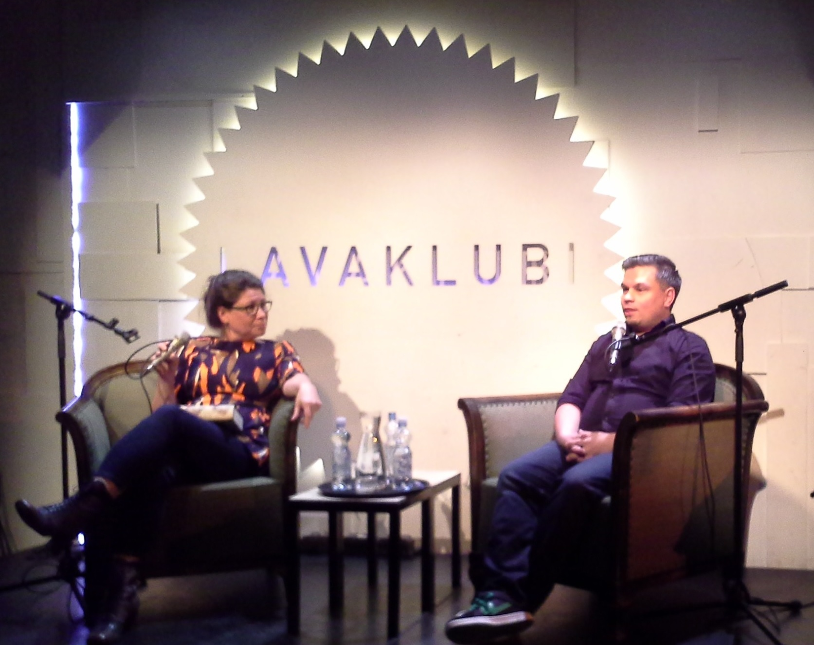 Writers Marjo Heiskanen and Tommi Kinnunen in literature discussion Prosak 14.10.2014